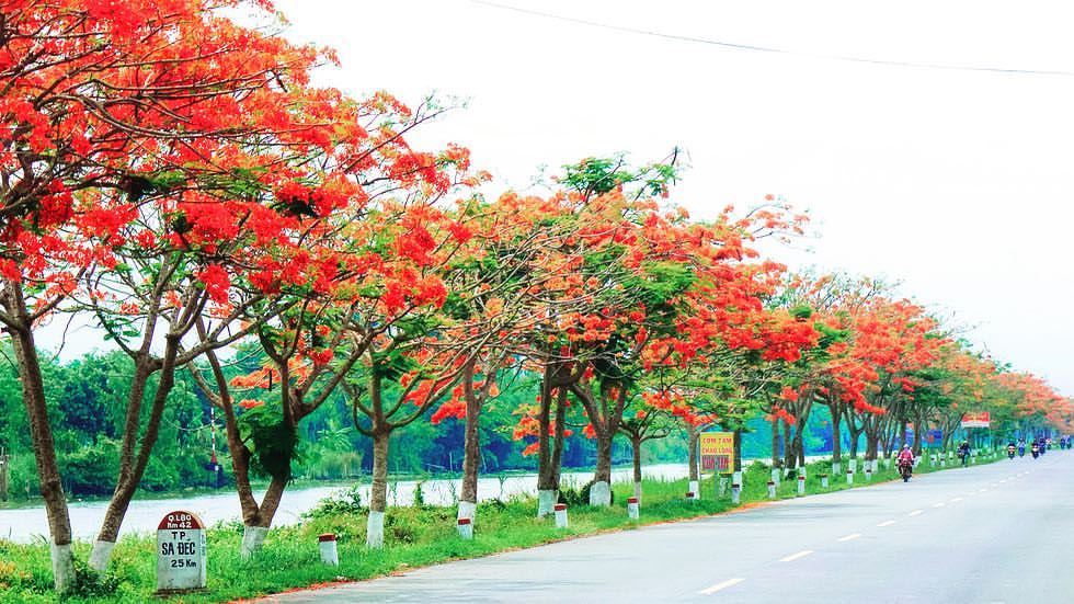 Hoa Phuong street, Binh Thanh, Lap Vo, Dong Thap